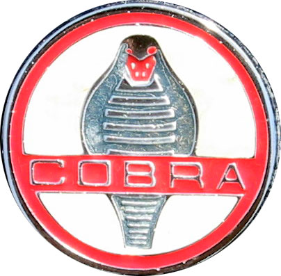 embleme of an AC Cobra